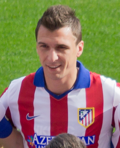 Mandzukic lining up for Atlético de Madrid 2014